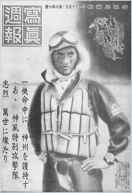 Shashin Shuho No. 347 (November 15, 1944)